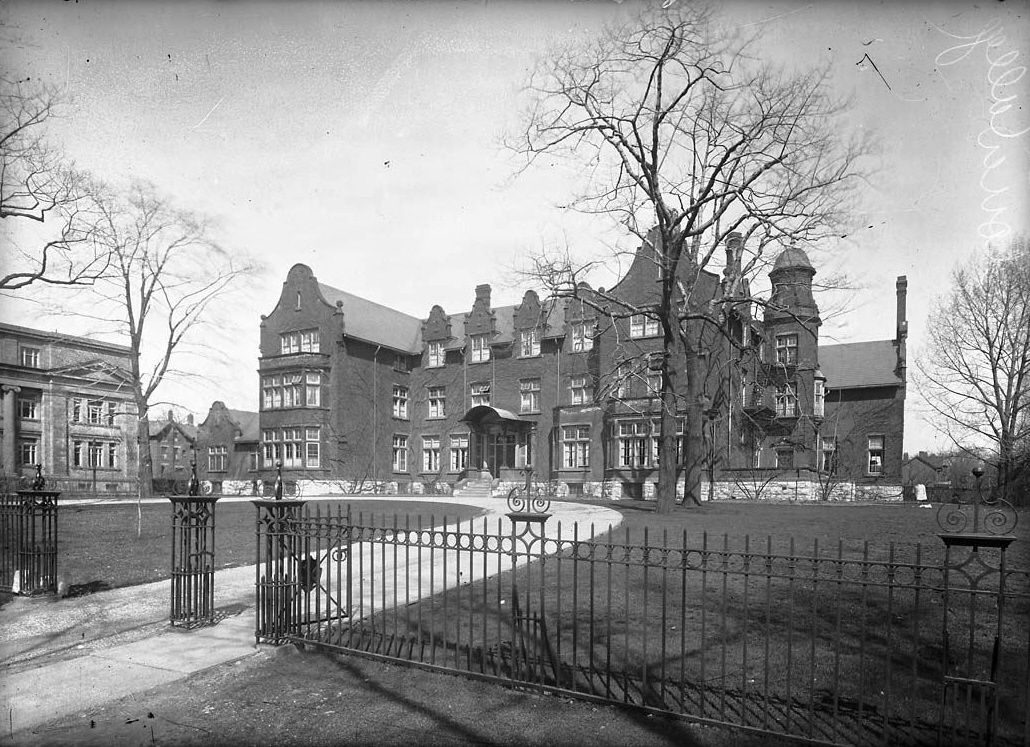 Victoria College, University of Toronto, Toronto, Canada.